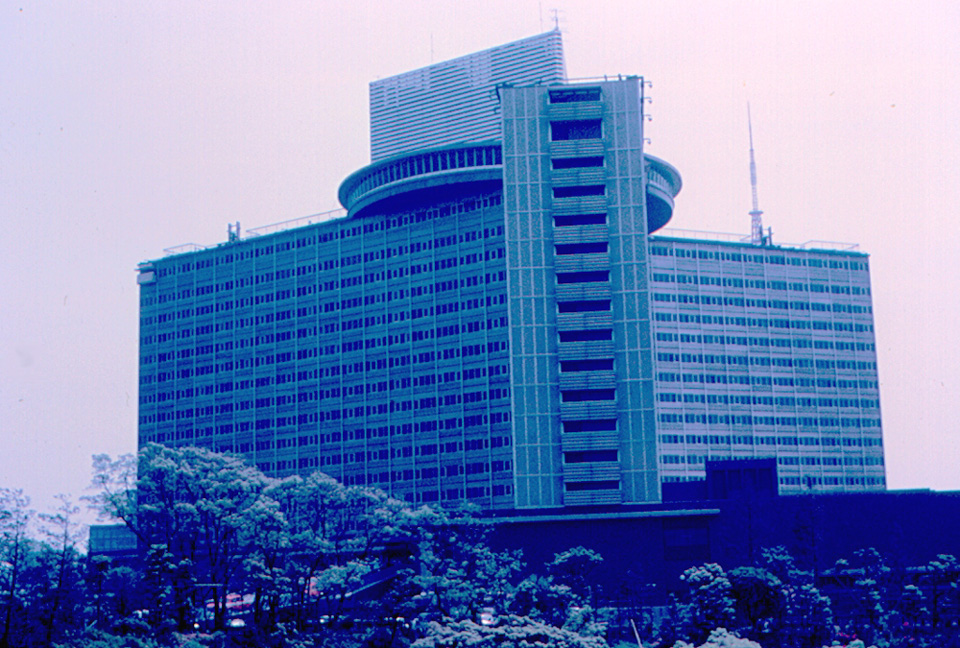 Hotel New Otani in Tokyo was built in 1964. It is located in a 400 year old garden. It is a 17-story building with 556 rooms and a revolving restaurant on top. Since then, an even larger hotel has been built on the same premises. This photo is "geotagged,"